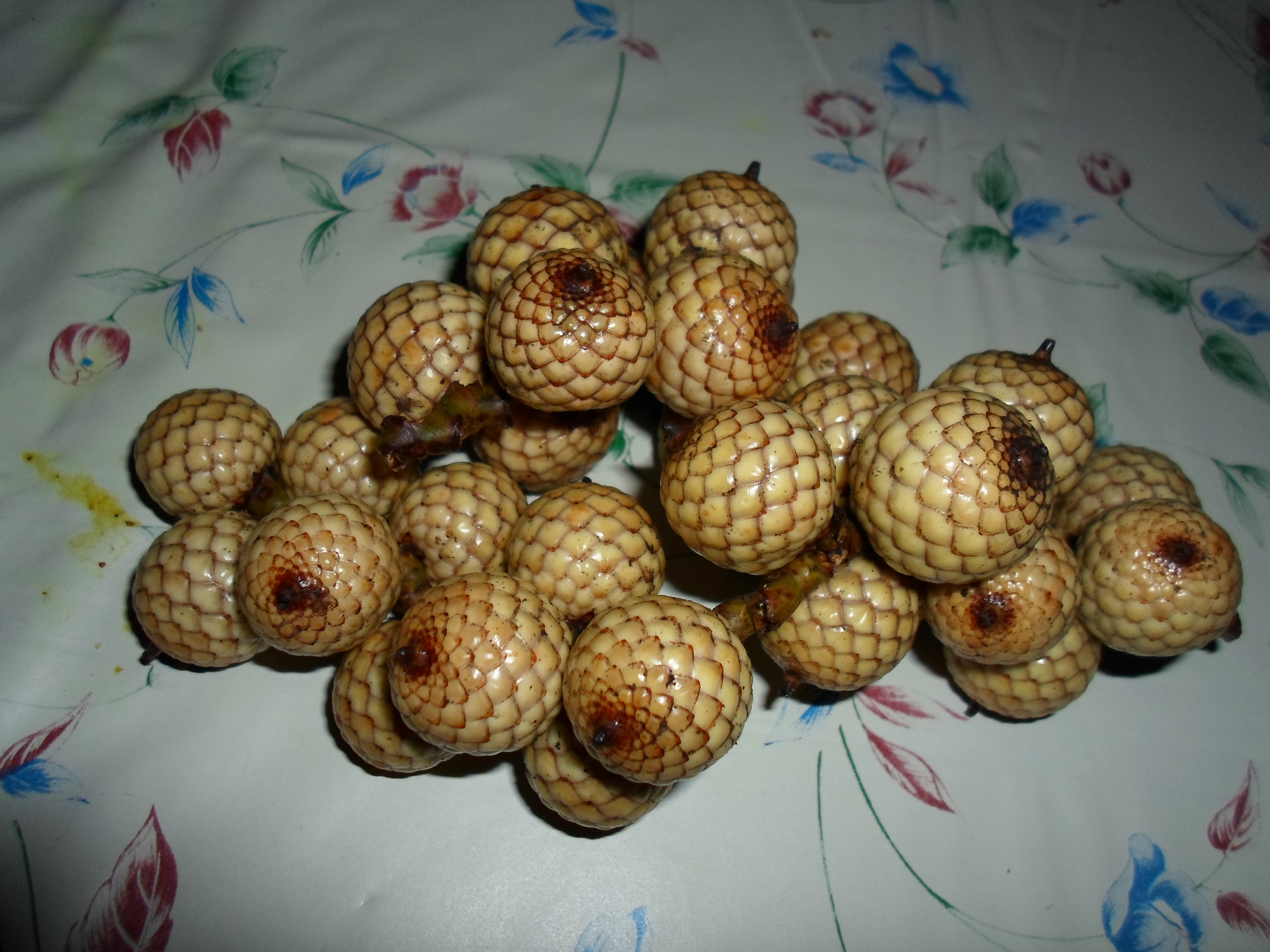 The Fruit of Rattan Plant